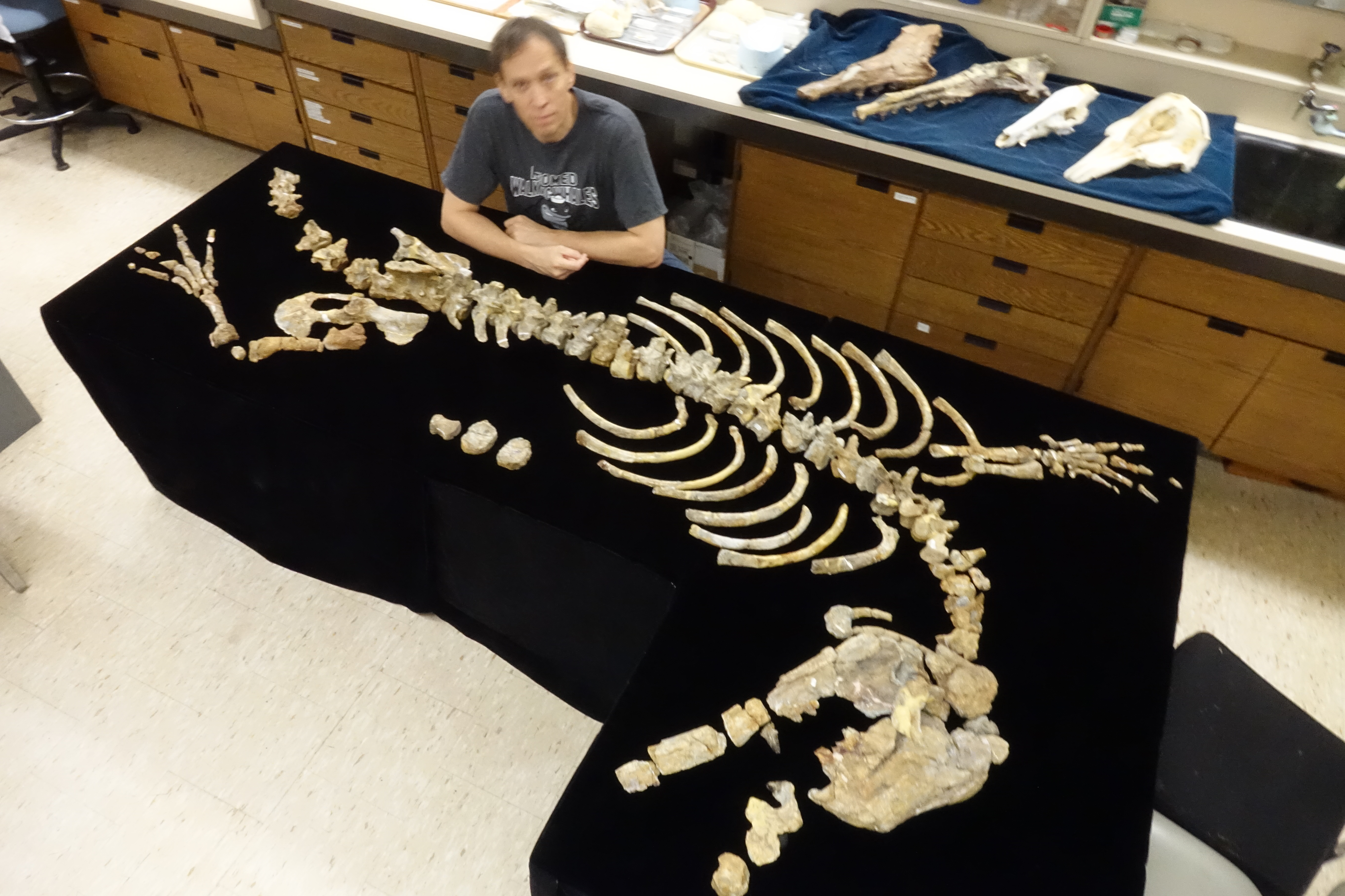 Hans Thewissen and Ambulocetus fossil